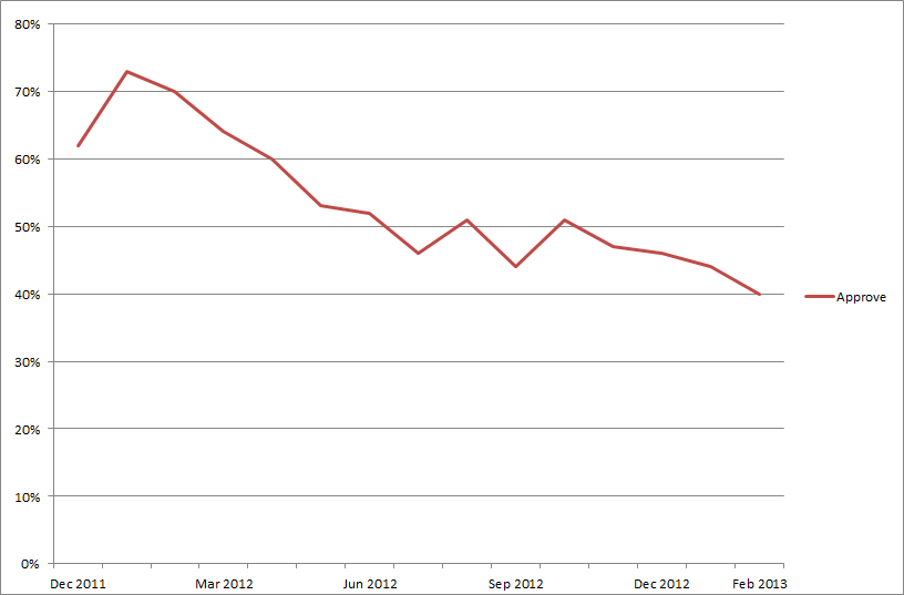 Graph illustrating Croatian Prime Minister Zoran Milanović's monthly approval rating since taking office in December 2011. The polls were conducted by Ipsos Puls.